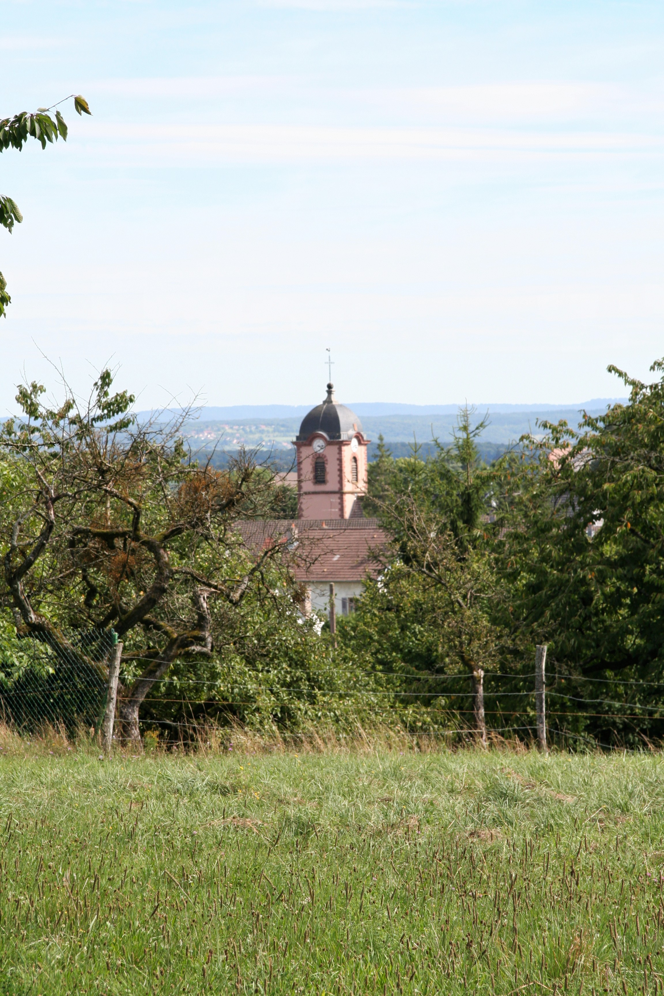 Church of Châtenois-les-Forges